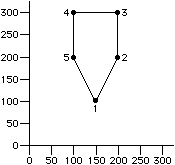 This is figure 3 of Appendix B of my book "Computer Aids for VLSI Design" (by Steven M. Rubin). The book is currently on the web at